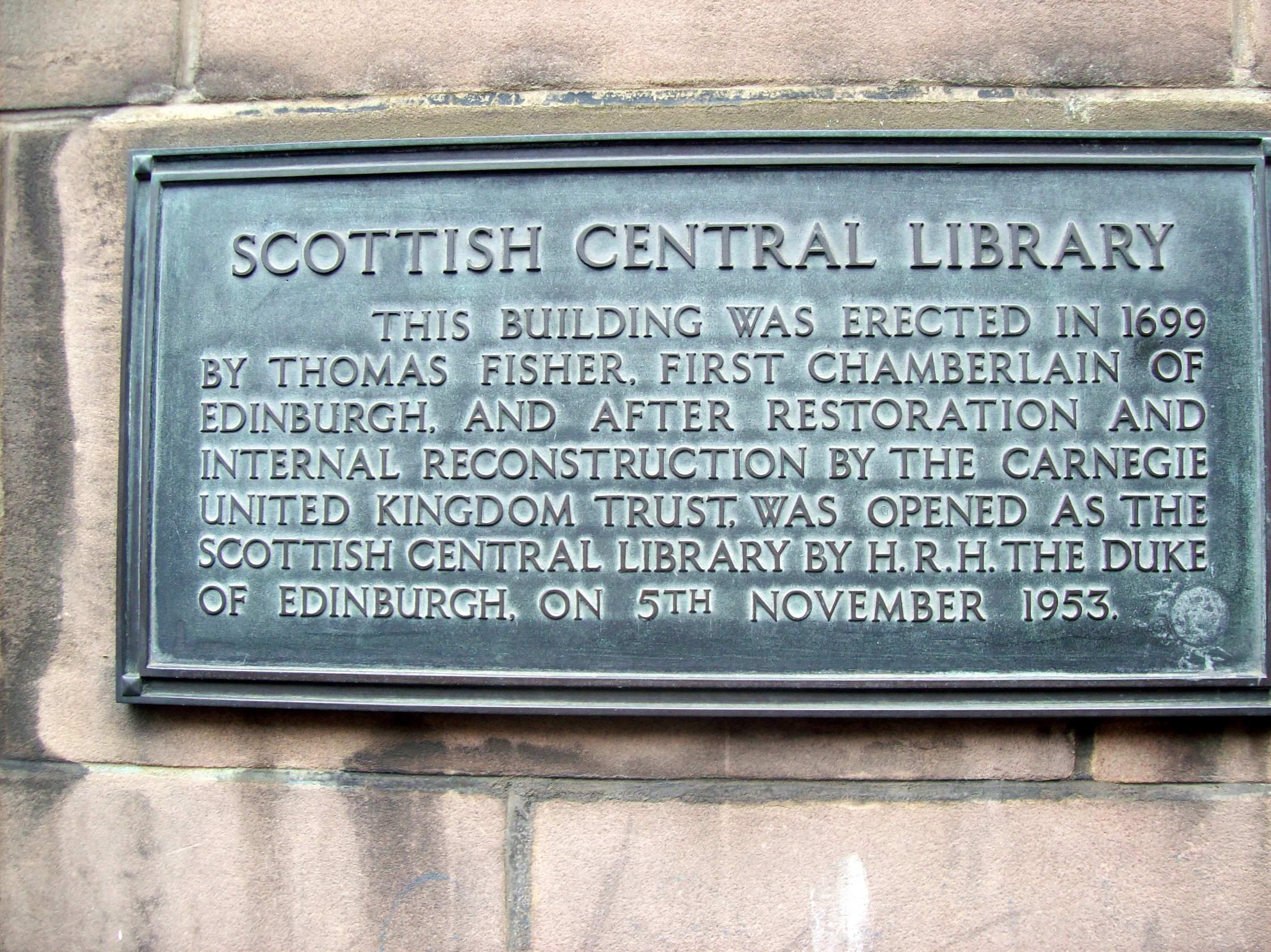 A great Edinburgh library...